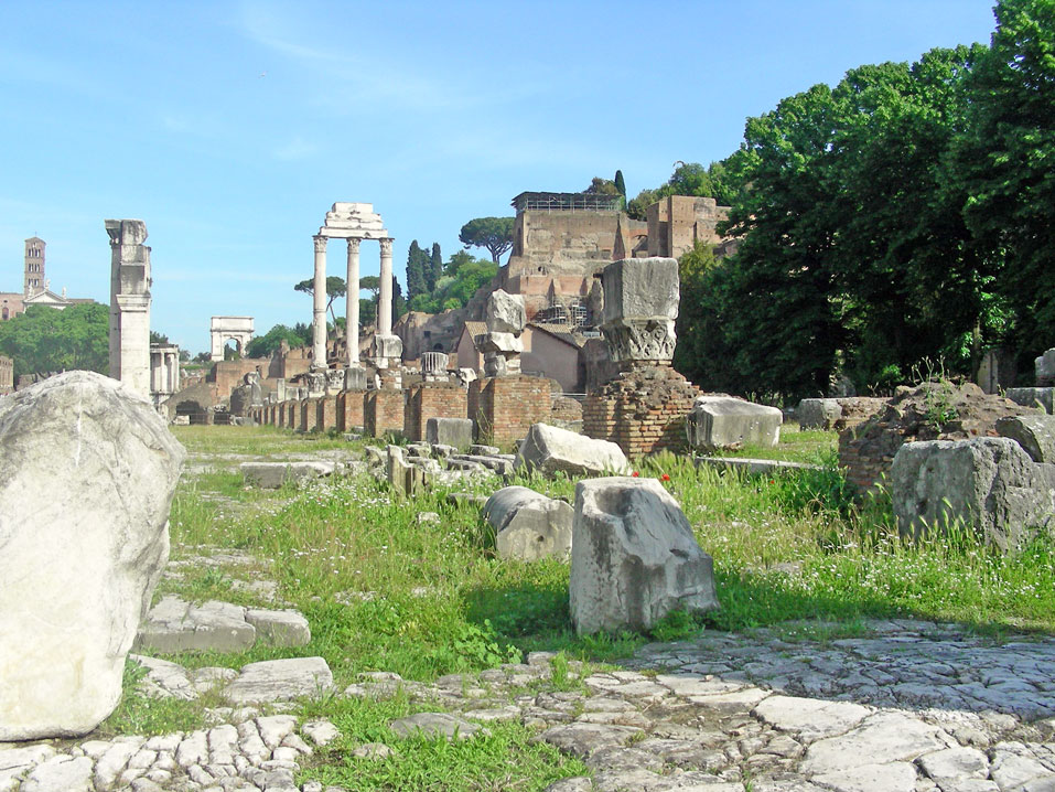 Rome, Roman Forum, Basilica Iulia, from north-west side